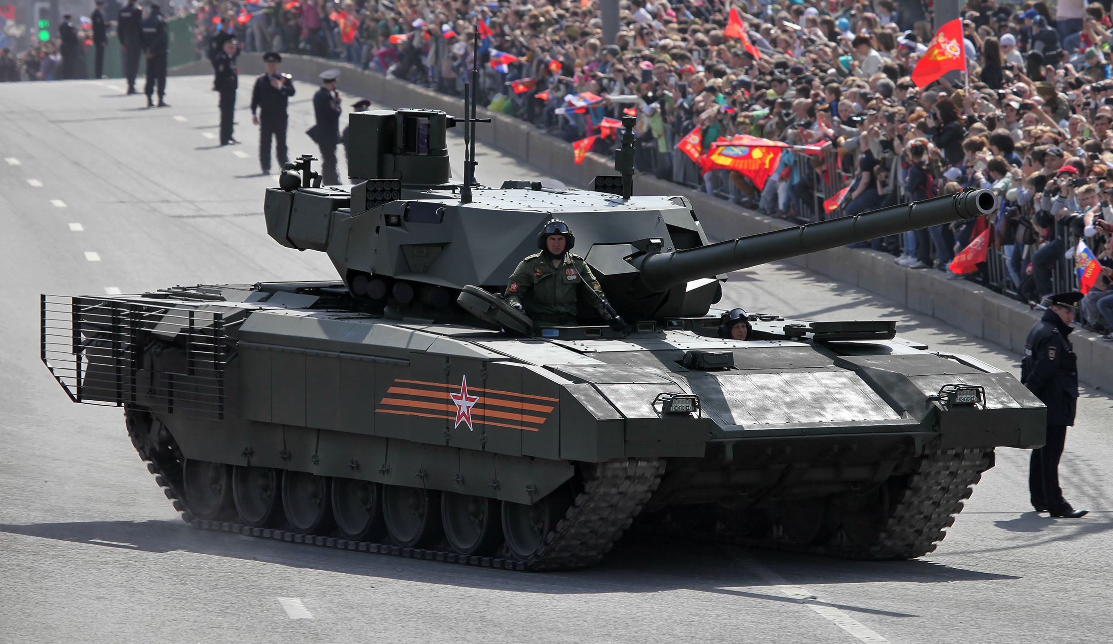 Main battle tank T-14 object 148 Armata (in the streets of Moscow on the way to or from the Red Square)